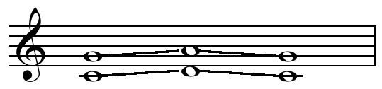 Parallel fifths on C, to D, back to C. Created by Hyacinth (talk) 01:46, 29 January 2012 (UTC) using Sibelius 5.